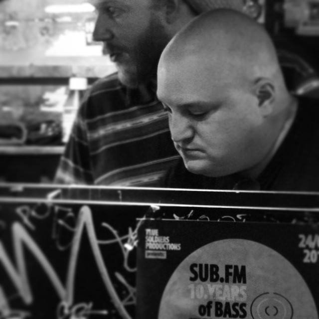 A photo of DJ Mr Brainz behind the turntables at the Sub.FM 10 Years Of Bass event in Amsterdam, May 2014